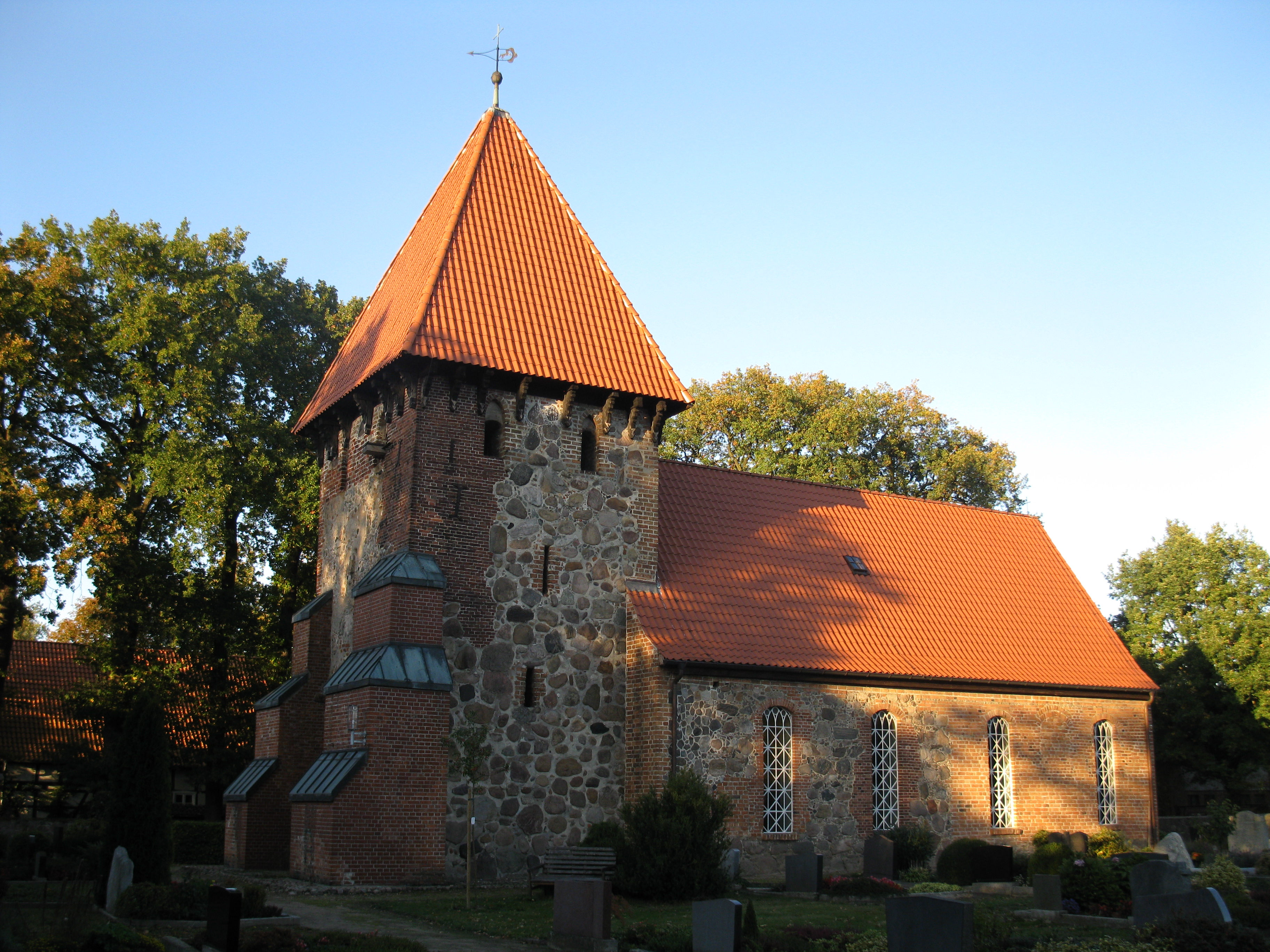 Satemin Church, Luechow, Germany